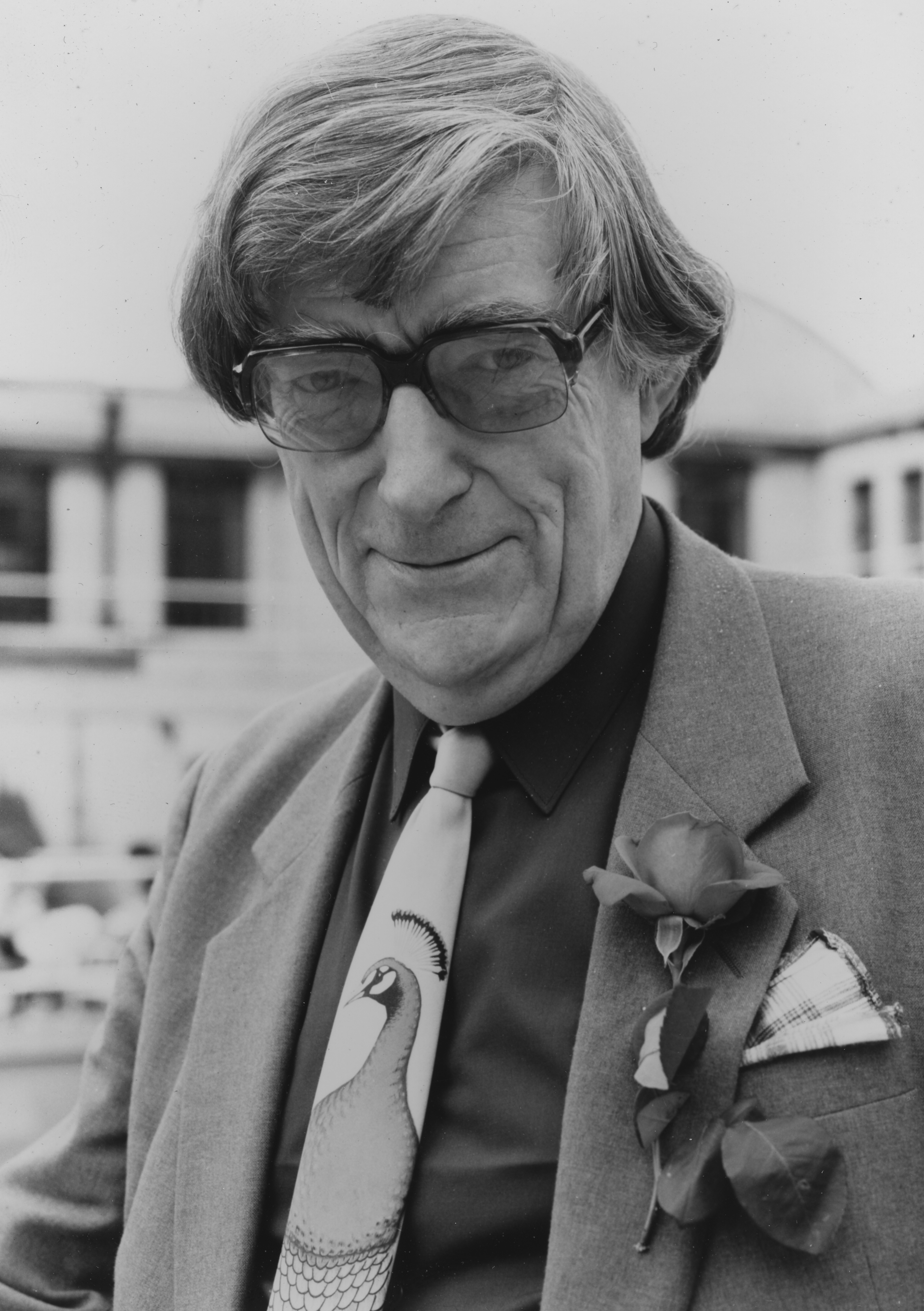 Professor of International History 1972-81, Stevenson Professor of International History, 1982-1993 IMAGELIBRARY/1287 Persistent URL